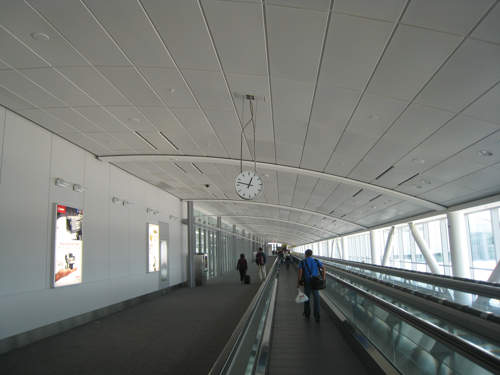 The long corridor leading to departure gates.